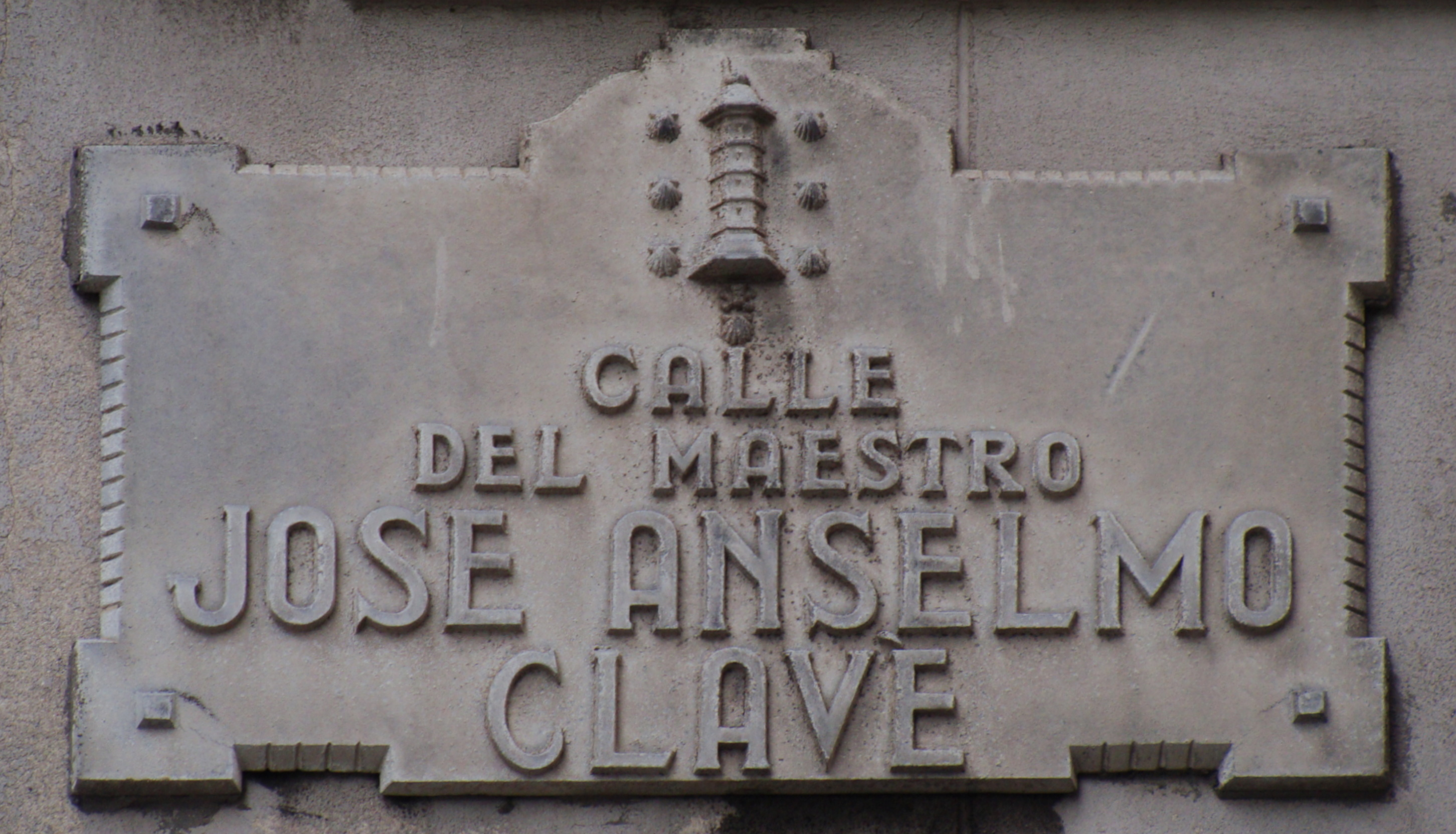 Calle del Maestro José Anselmo Clavé (Maestro Clavé Street) street sign in A Coruña, Galicia, Spain.